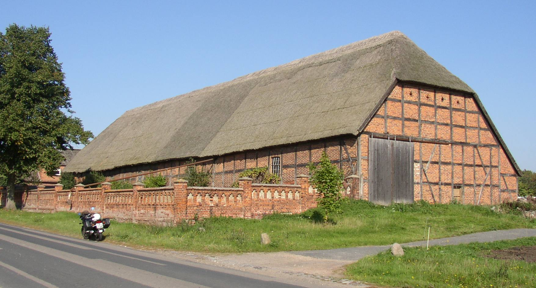 Farm in Groß Wüstenfelde in Mecklenburg-Western Pomerania, Germany